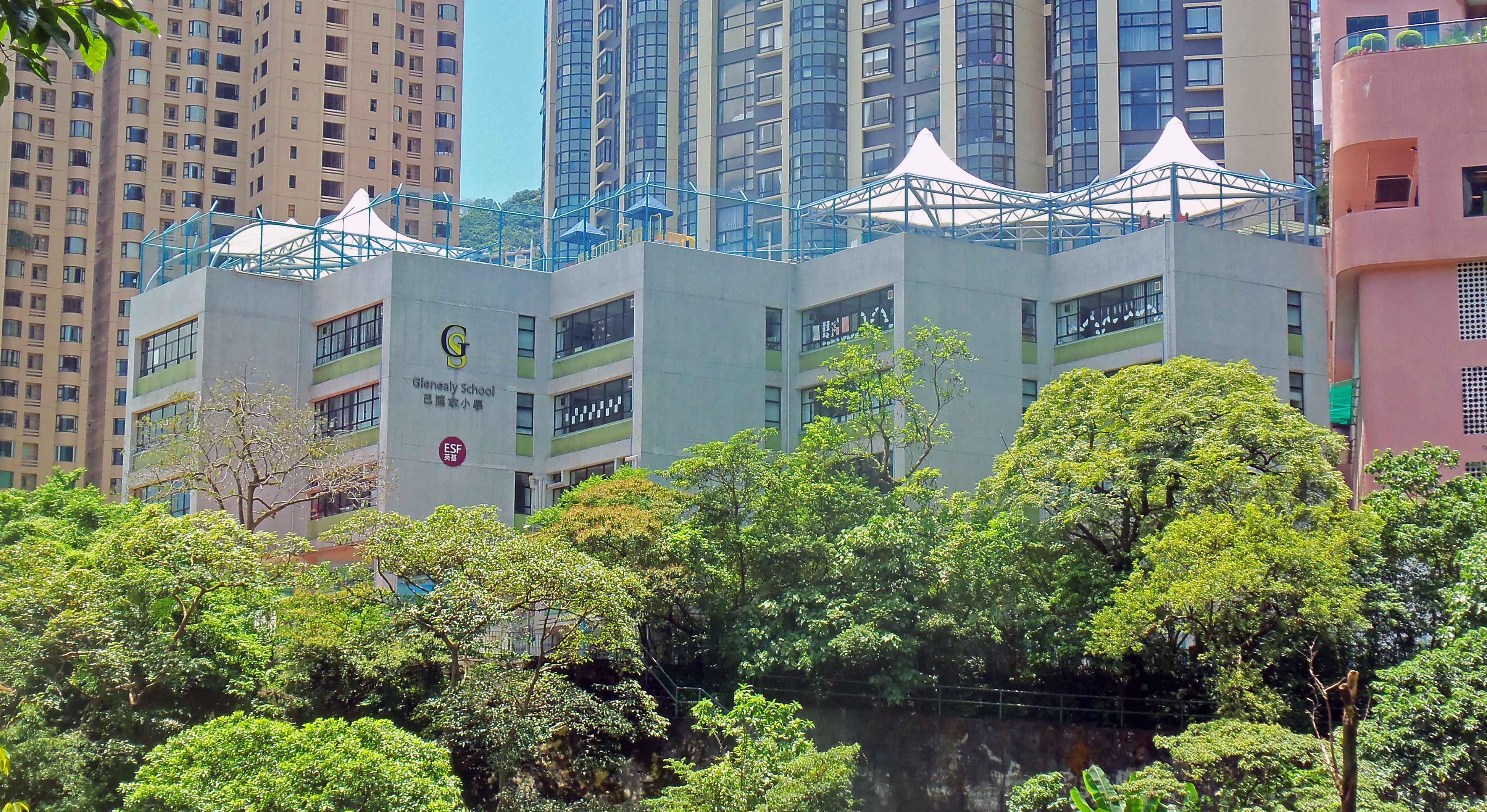 Glenealy School, on Hornsey Road in Hong Kong's Mid-levels.